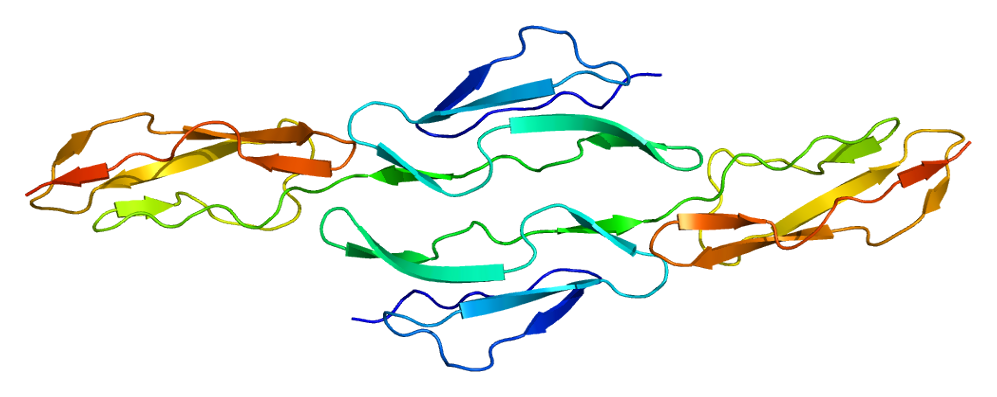 Structure of the CD55 protein. Based on PyMOL rendering of PDB 1h03.